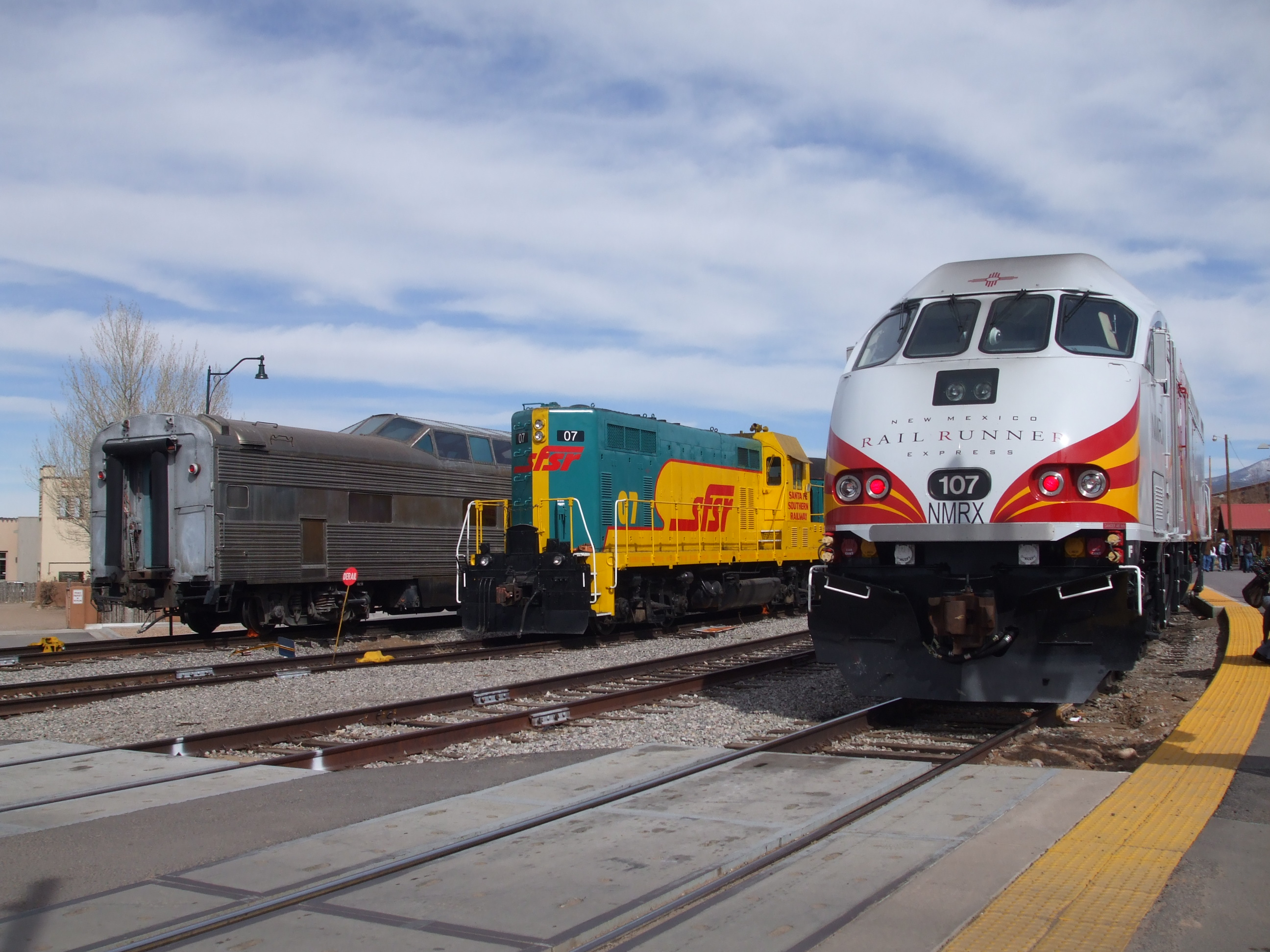 Rail Runner Express locomotive 107 alongside older diesel 07 and an ex-ATSF Pleasure Dome (far left) owned by the Santa Fe Southern Railway. Taken at Santa Fe Depot.